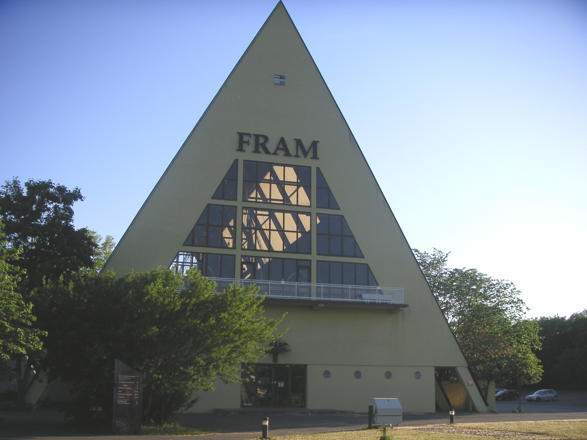 Museum on Bygdøy in Oslo. The main attraction are the polarship Fram